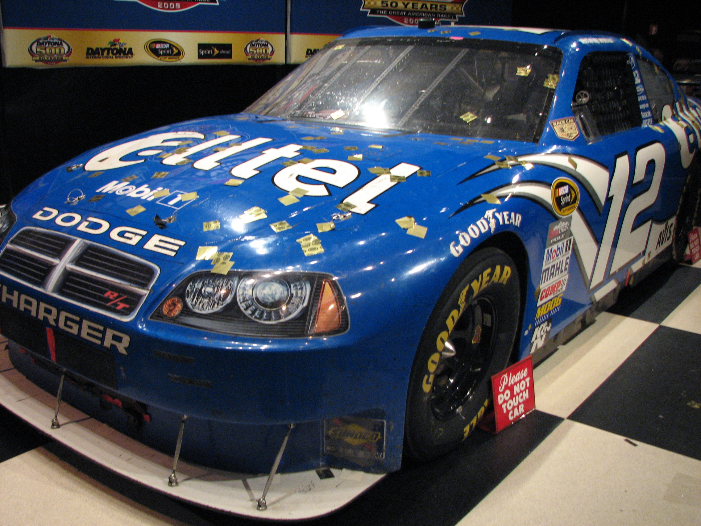 By tradition, the winning car is rolled into the Daytona 500 Experience the morning after the race. It will remain here until next year's race, then returned to the team.Ryan Newman's Car